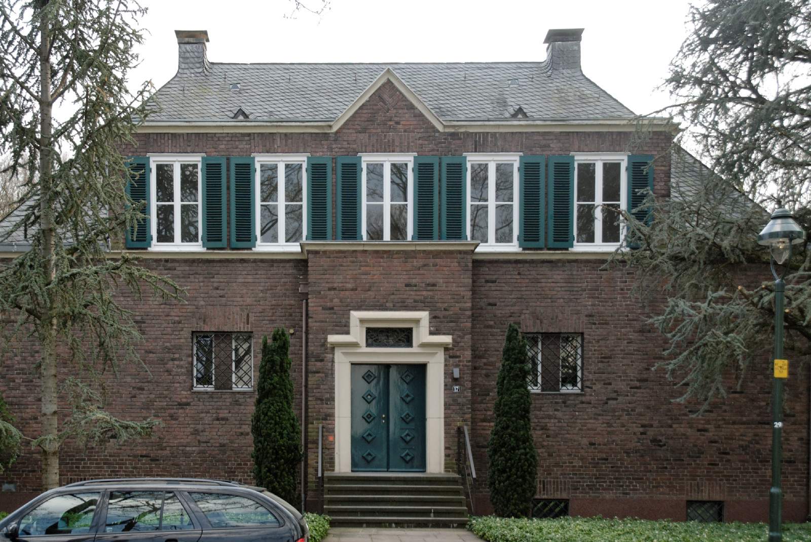 House Meliesallee 17 in Düsseldorf-Benrath, Germany